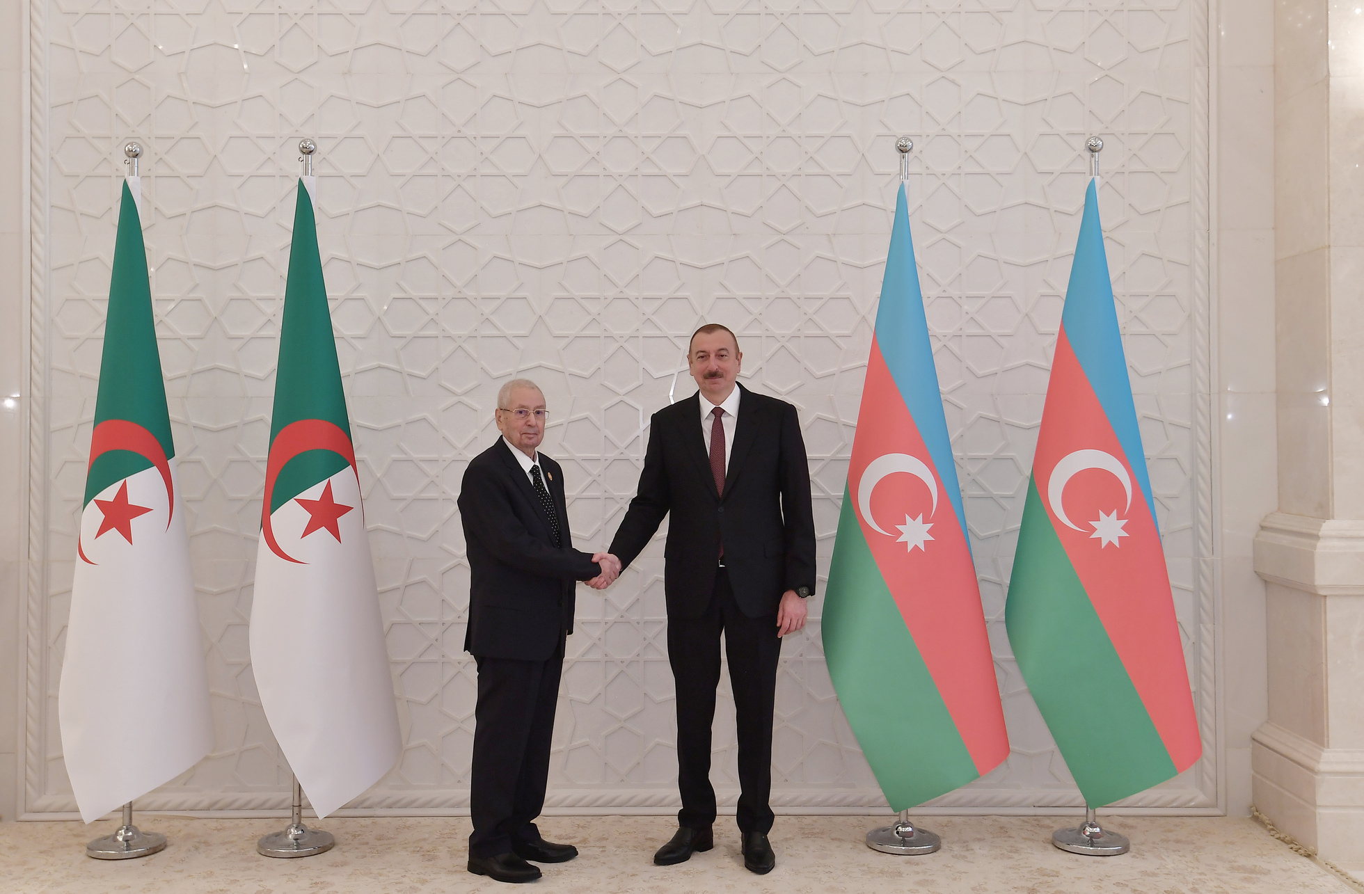 Ilham Aliyev met with President of Algeria Abdelqader Bensalah